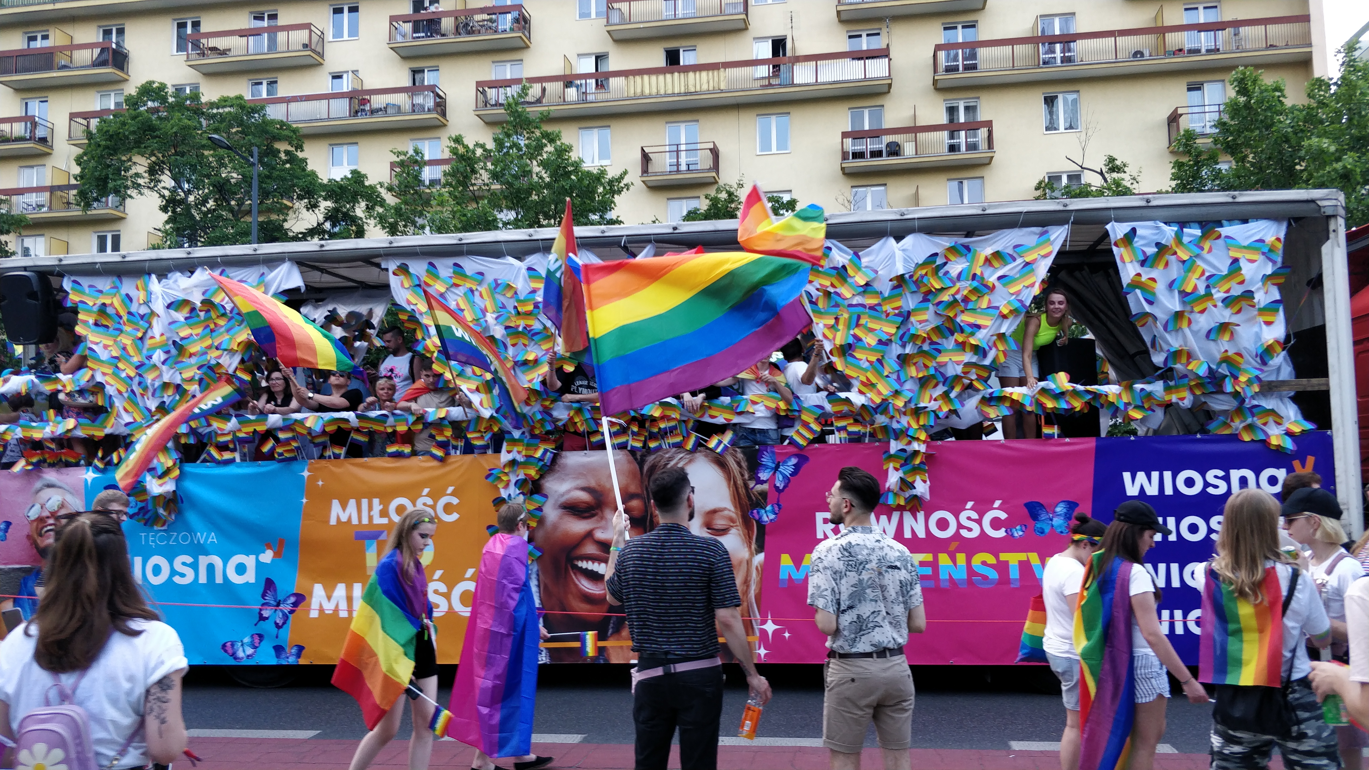 Equality Parade (Parada Równości) 2019 in Warsaw, Poland